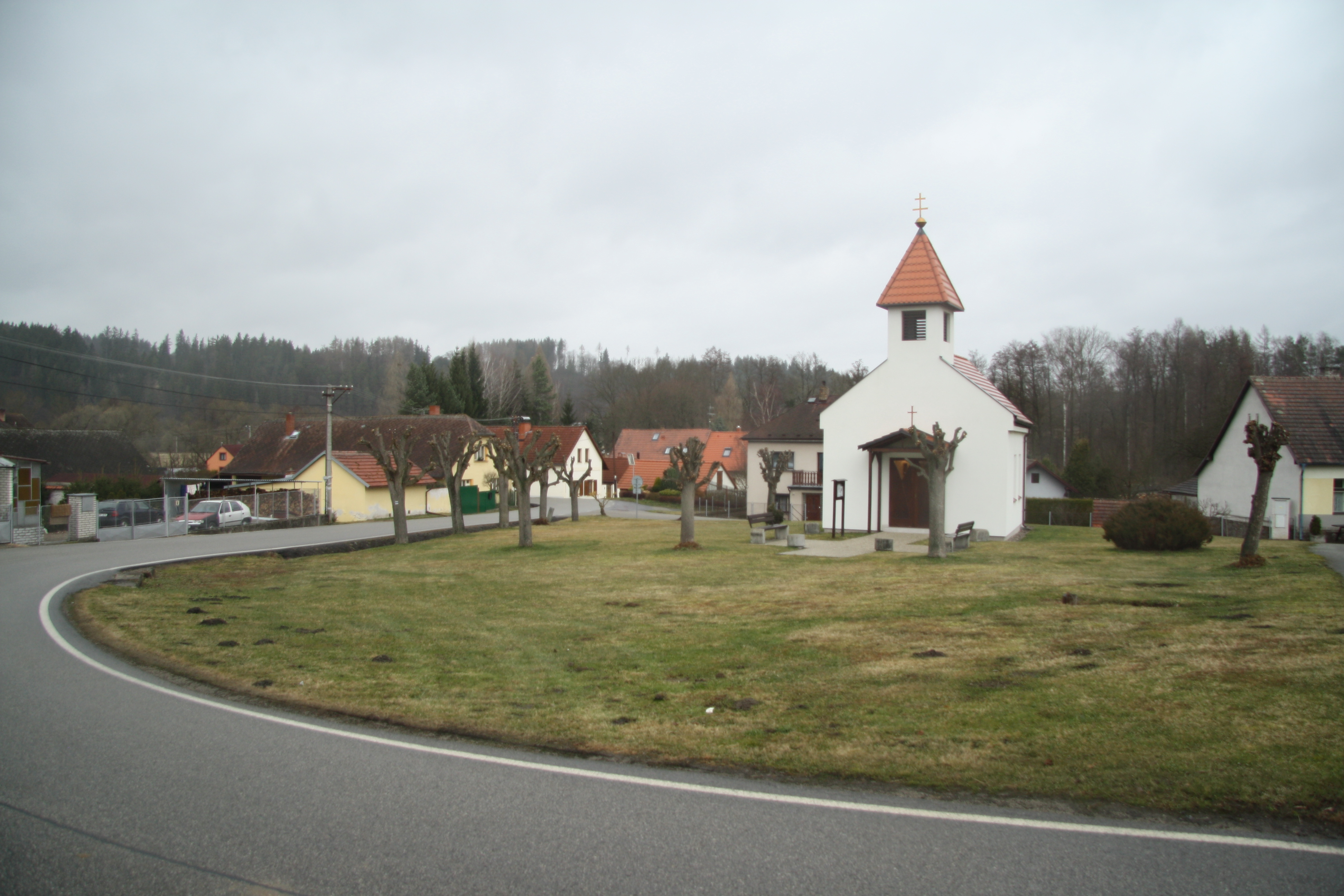 Center with chapel of Holy Trinity in Libež, Benešov District.